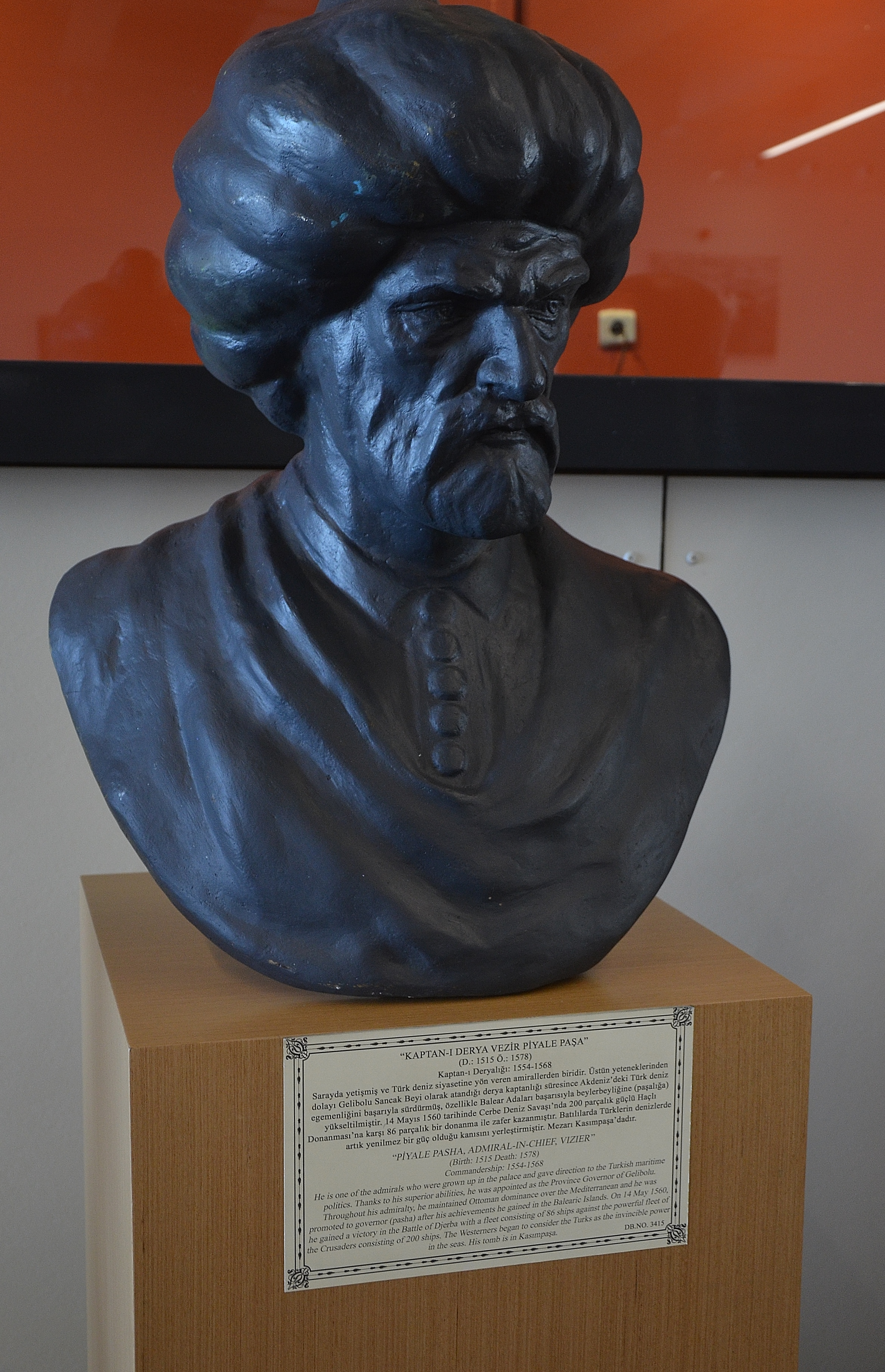 Bust of Piyale Pasha in the Istanbul Naval Museum